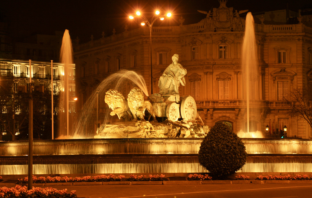 Night view of the Fountain of Cybele, at the Plaza de Cibeles (square) in Madrid (Spain).